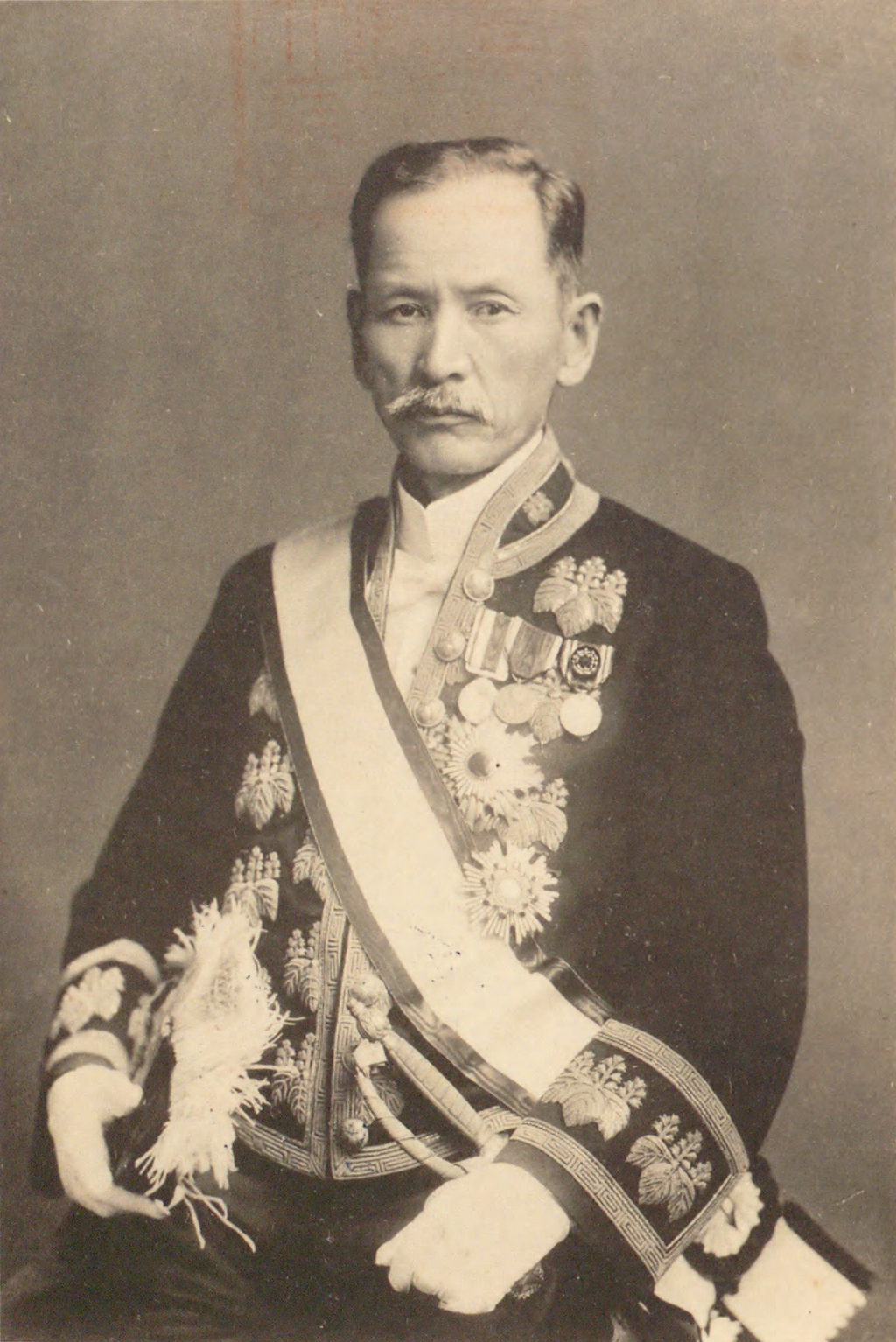 Portrait of Okada Ryohei (岡田良平, 1864 – 1934)